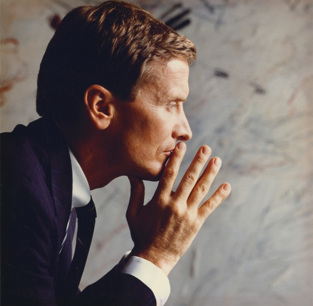 Thomas Ammann (1950-1993) Swiss artdealer & collector